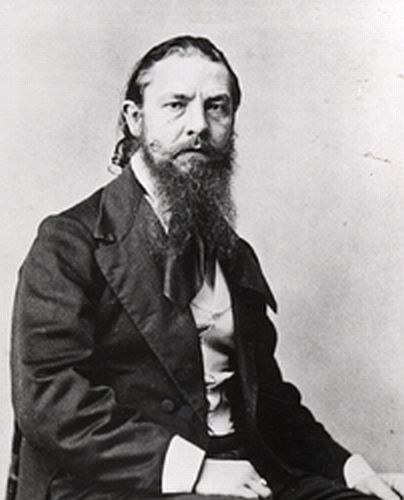 Otto Volger (1822-1897), German geologist und politician